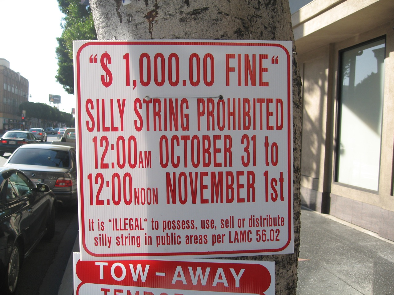 Road sign that explains the possession, use, sale or distribution of silly string is forbidden in the area during the Halloween season. Hollywood, CA. Halloween night warning.